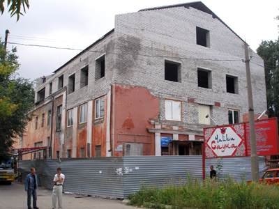 Cinema "Chaika" (Barnaul)